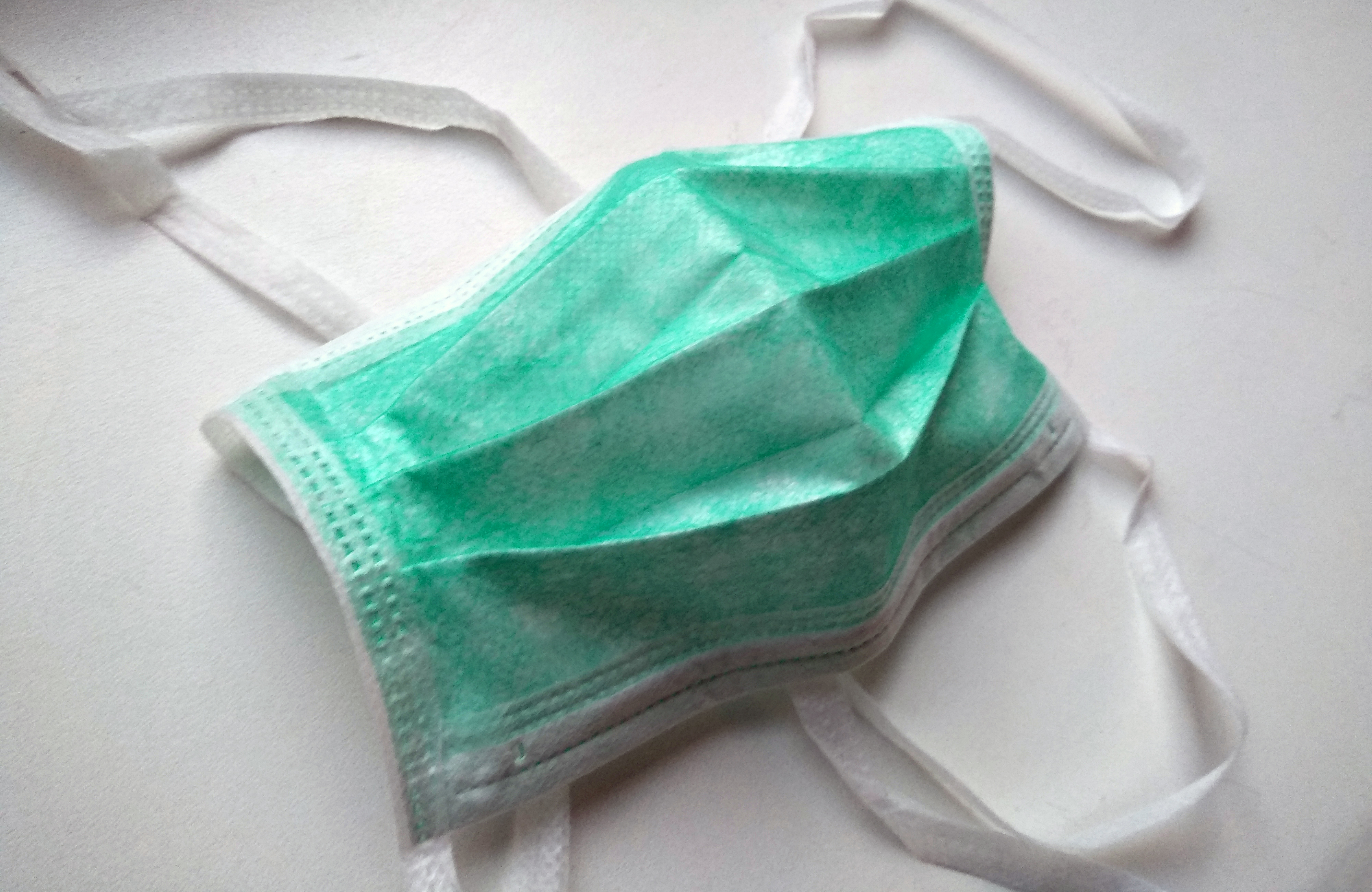 These are the face masks often used to prevent the spread of Coronavirus. They are used in countries with coronavirus disease (COVID-19) outbreaks and are worn in hospitals as well as in public. They are not designed to protect the wearer from inhaling airborne bacteria or virus particles and are less effective than respirators, such as N95 or FFP masks. You can use this photo for FREE under Creative Commons license. Please make sure to give proper author attribution by including a link to